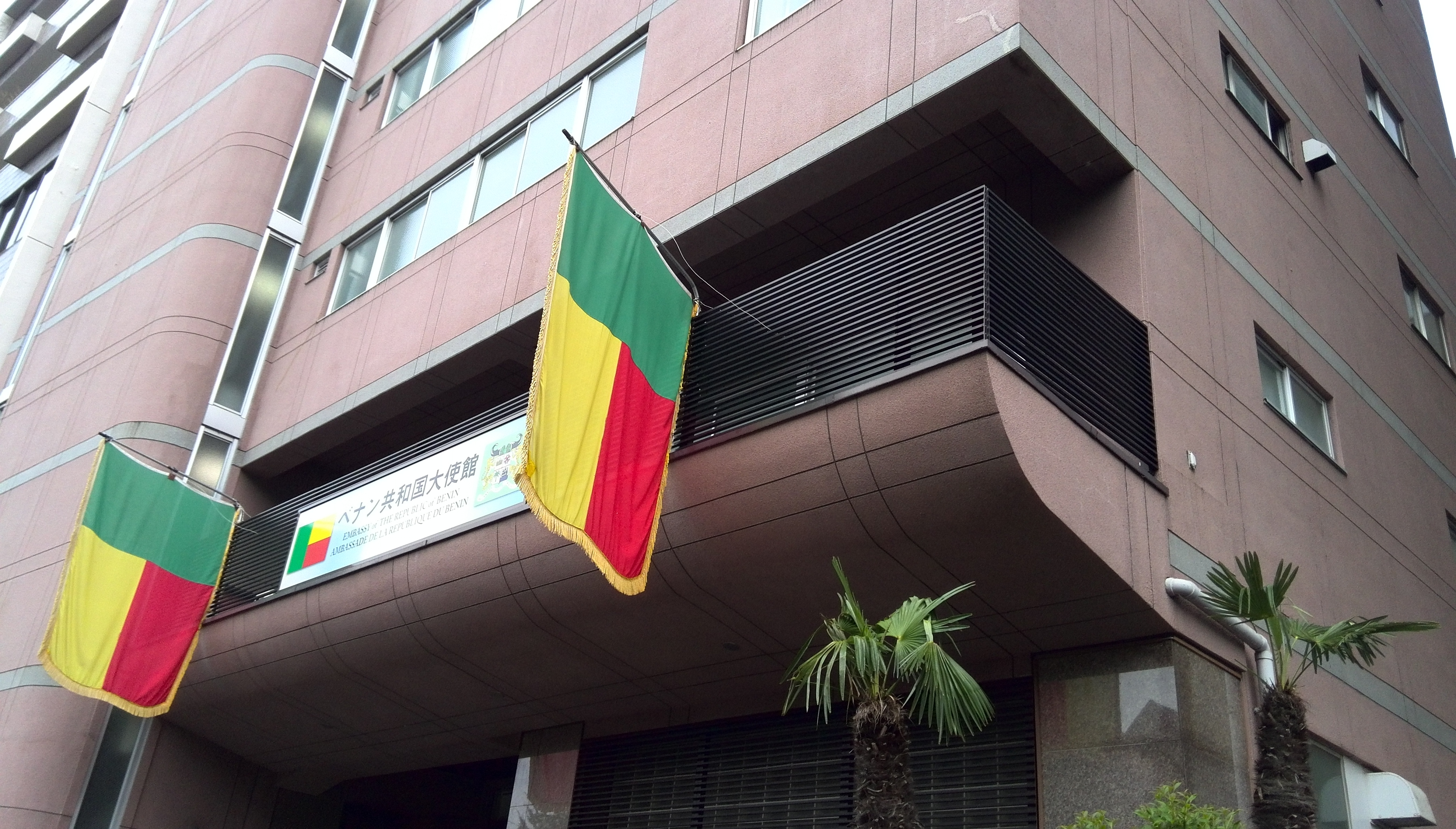 Embassy of Benin in Tokyo